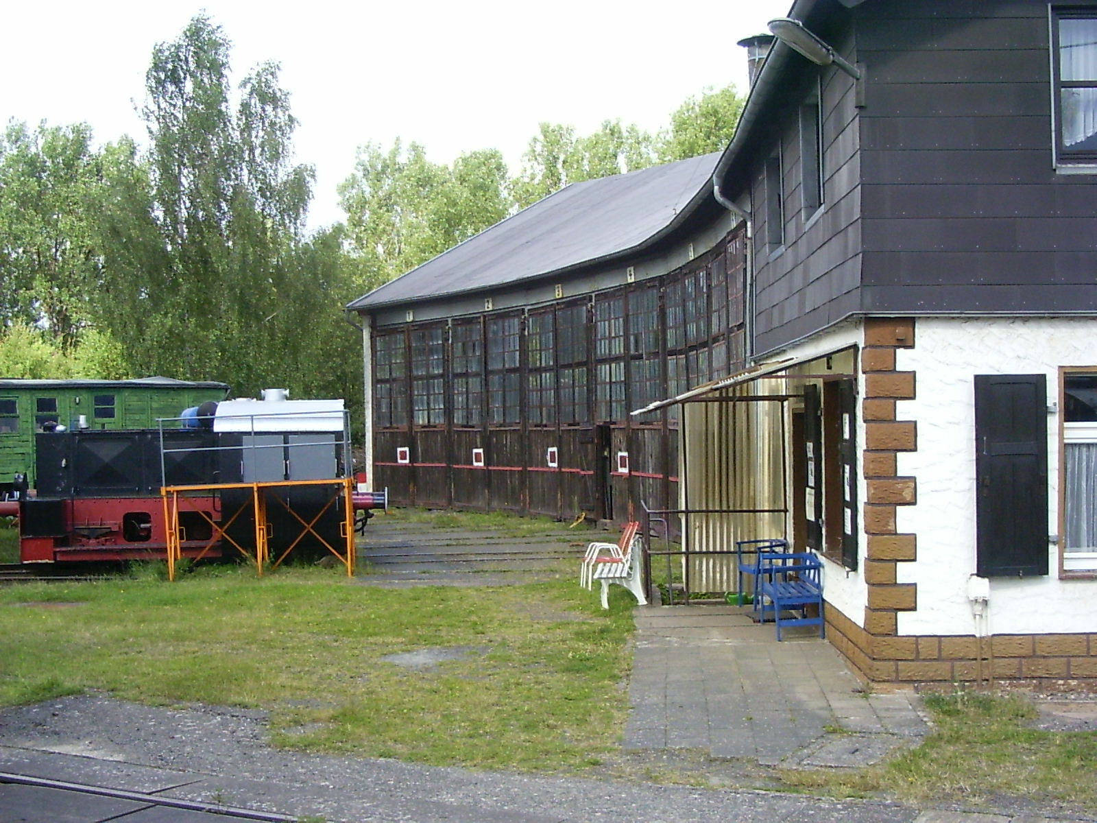 Roundhouse of the Hermeskeil Railway Heritage Center